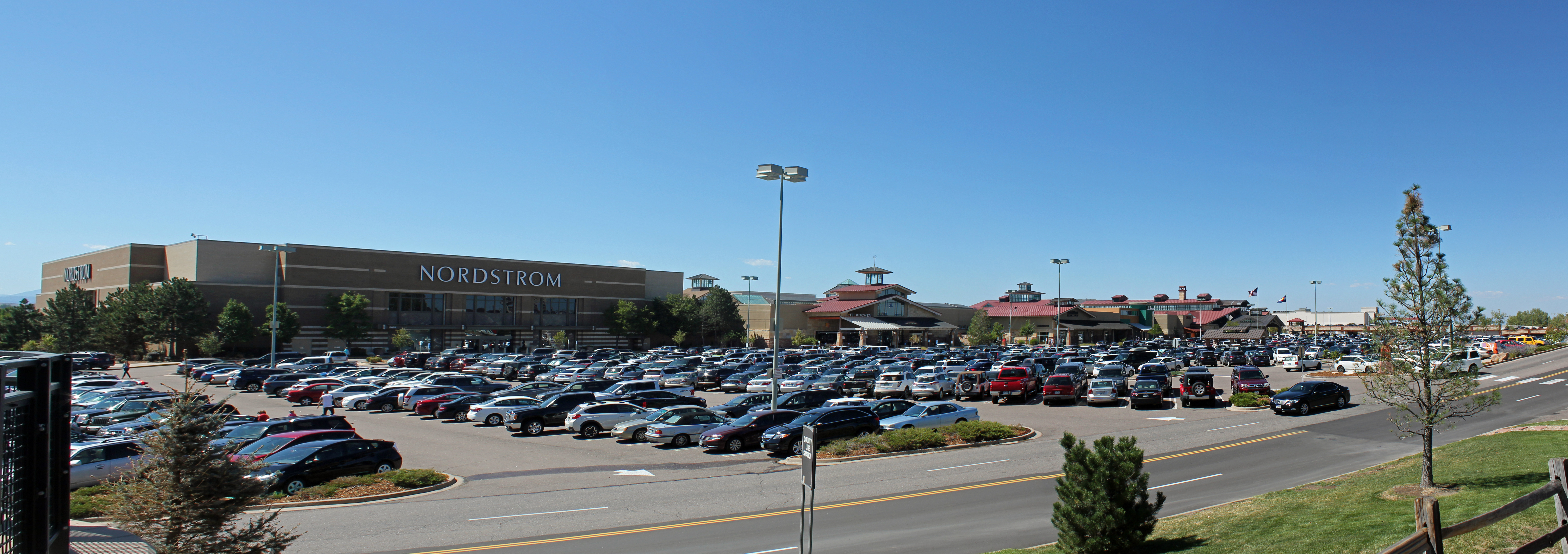 The exterior of the Park Meadows shopping mall in Lone Tree, Colorado. The mall is located at 8401 Park Meadows Center Drive.